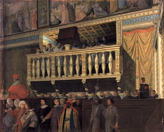 Study for a painting of the Sistine Chapel Choir in the early 17th century on their balcony in the Sistine Chapel. Original Title: La Tribune des chantres de la chapelle Sixtine. Oil on Canvas.